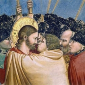 Detail of Kiss of Judas